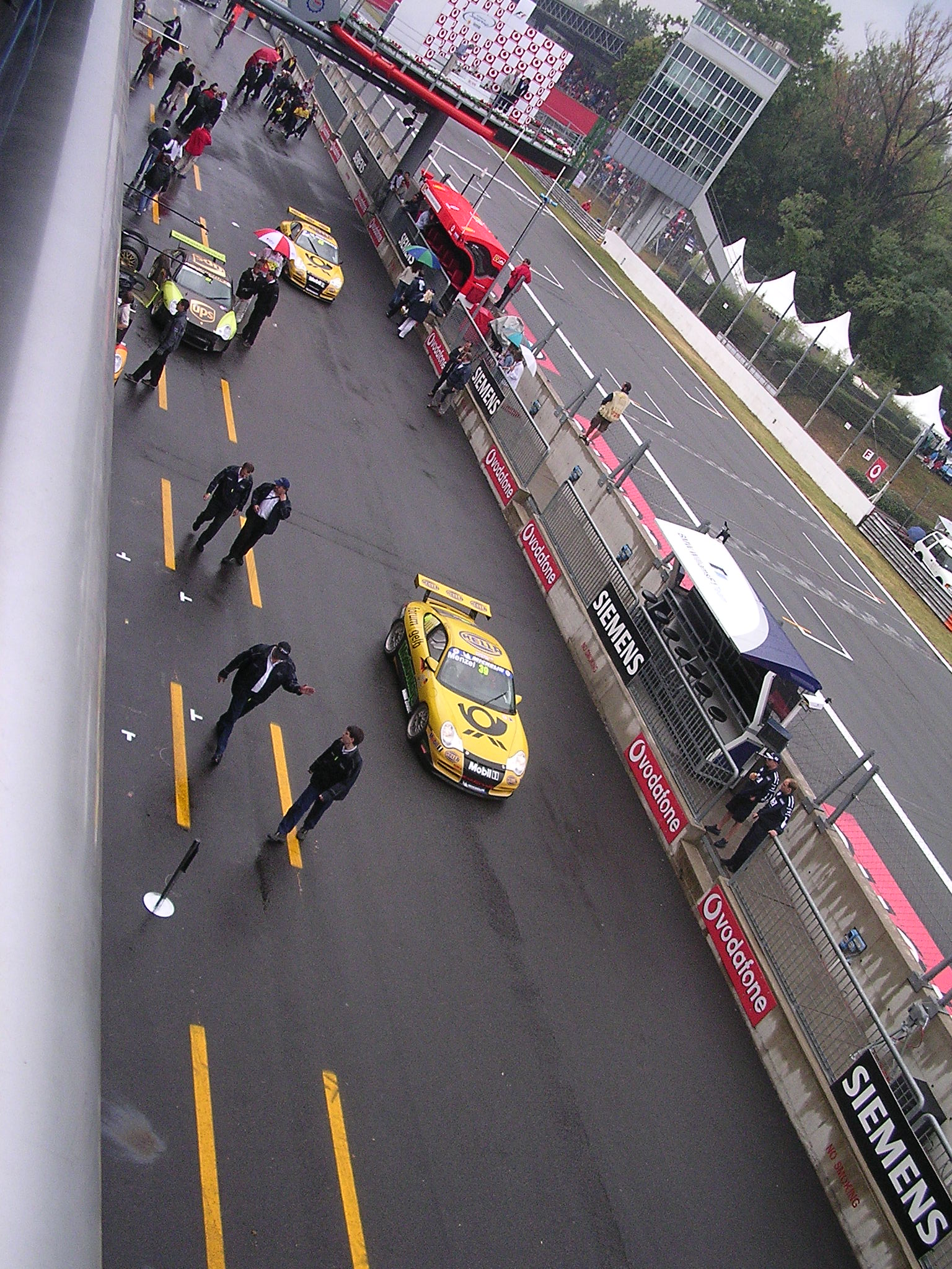 The Autrodomo Nazionale of Monza (italy) during a race in september 2004